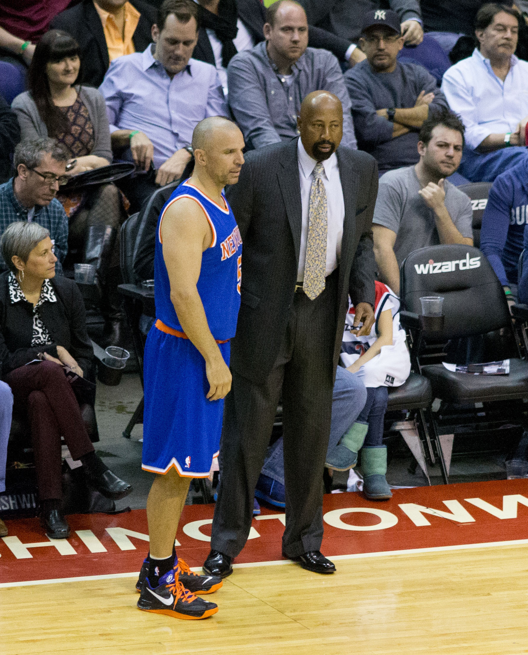 New York Knicks at Washington Wizards March 1, 2013